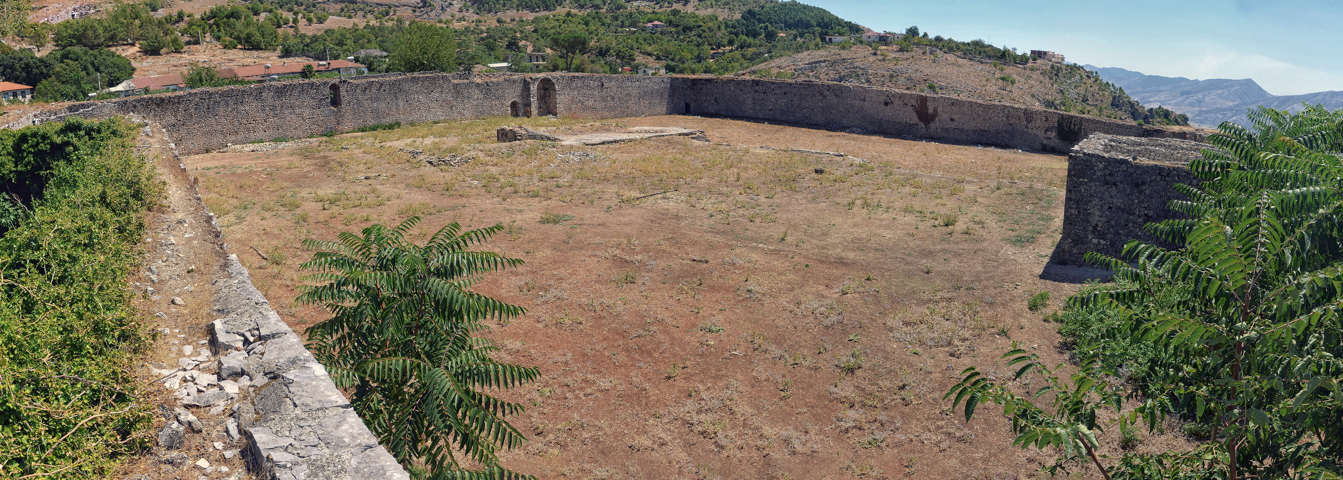 The Libohova Castle in Albania